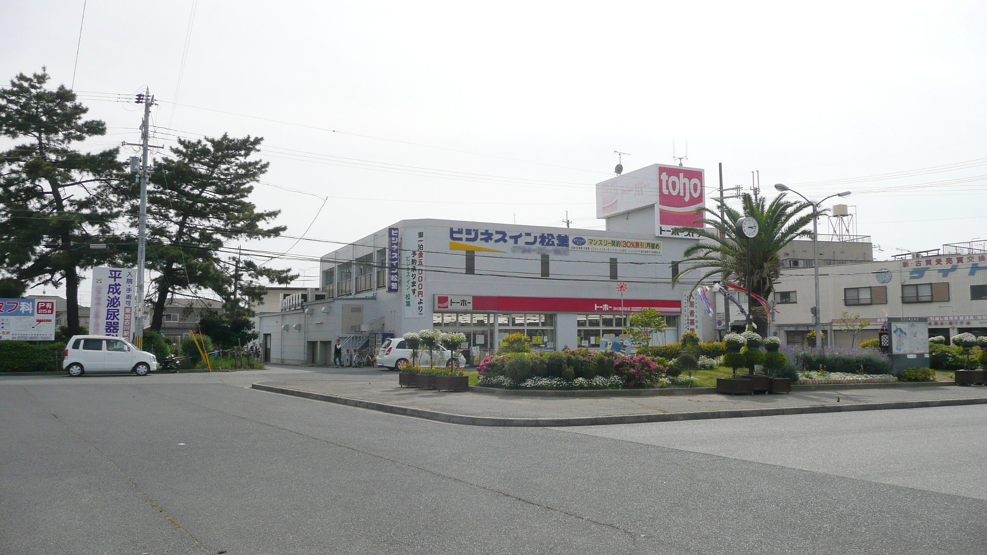 Sanyo Electric Railway,Hamanomiya Station plaza.